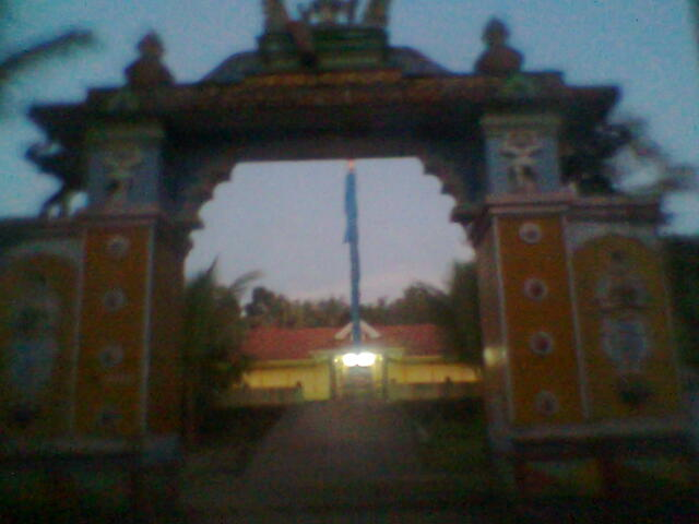 puthankavu bhagavathy kshethram